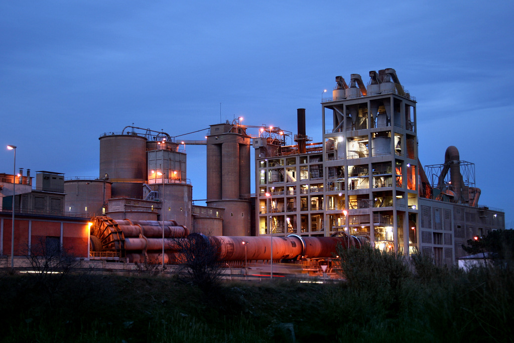 Cement plant in the outskirts of the Barcelona metropolitan area. (Cementos Molins)